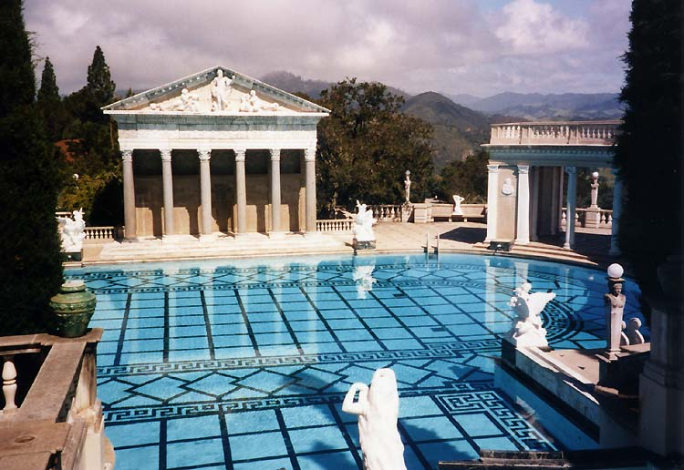 Photo of Hearst Castle outdoor pool